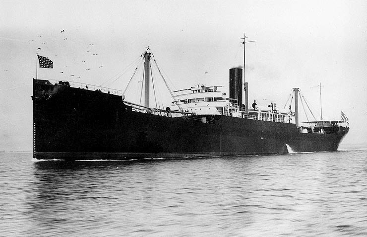 S.S. West Grama (American Freighter, 1918) Underway, possibly while in Naval service in 1919. This ship was acquired by the Navy and placed in commission on 9 January 1919 as USS West Grama (ID # 3794). She was returned to the U.S. Shipping Board on 16 June 1919. Note that she wears a peacetime paint scheme, but flies a Jack at her bow. The original print is in National Archives' Record Group 19-LCM. U.S. Naval Historical Center Photograph.